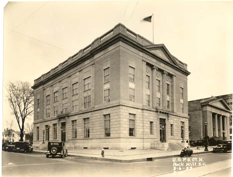 The U.S. Post Office and Courthouse in Rock Hill, South Carolina in 1933. It served as the Federal Courthouse from 1932 until 1983.